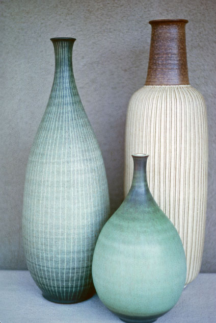 Group of hand-thrown stoneware bottle vases by Harrison McIntosh, made in 1962. Credit: Harrison McIntosh